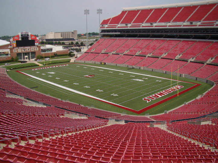 This shows Papa John's Cardinal Stadium after it was expanded to a capacity of 55,000 in 2010. It is home to the University of Louisville football team.